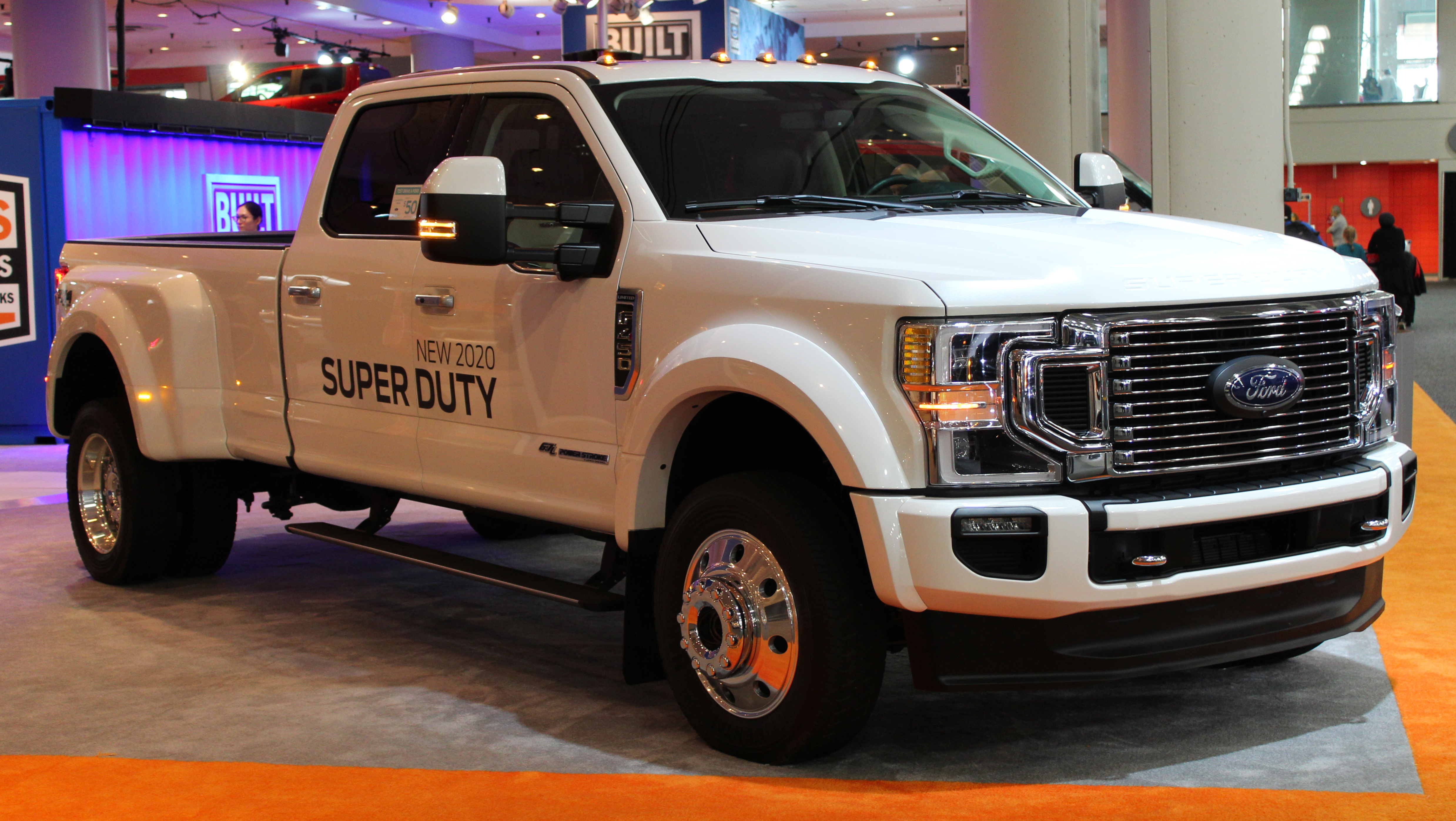 A 2020 Ford F-450 Limited Super Duty with Powerstroke Turbo Diesel engine photographed during the 2019 New York International Auto Show, in Hudson Yards, Manhattan, NYC